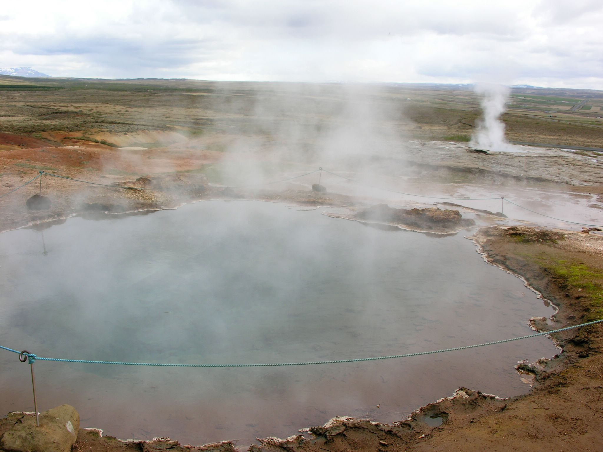 Geysir, Iceland